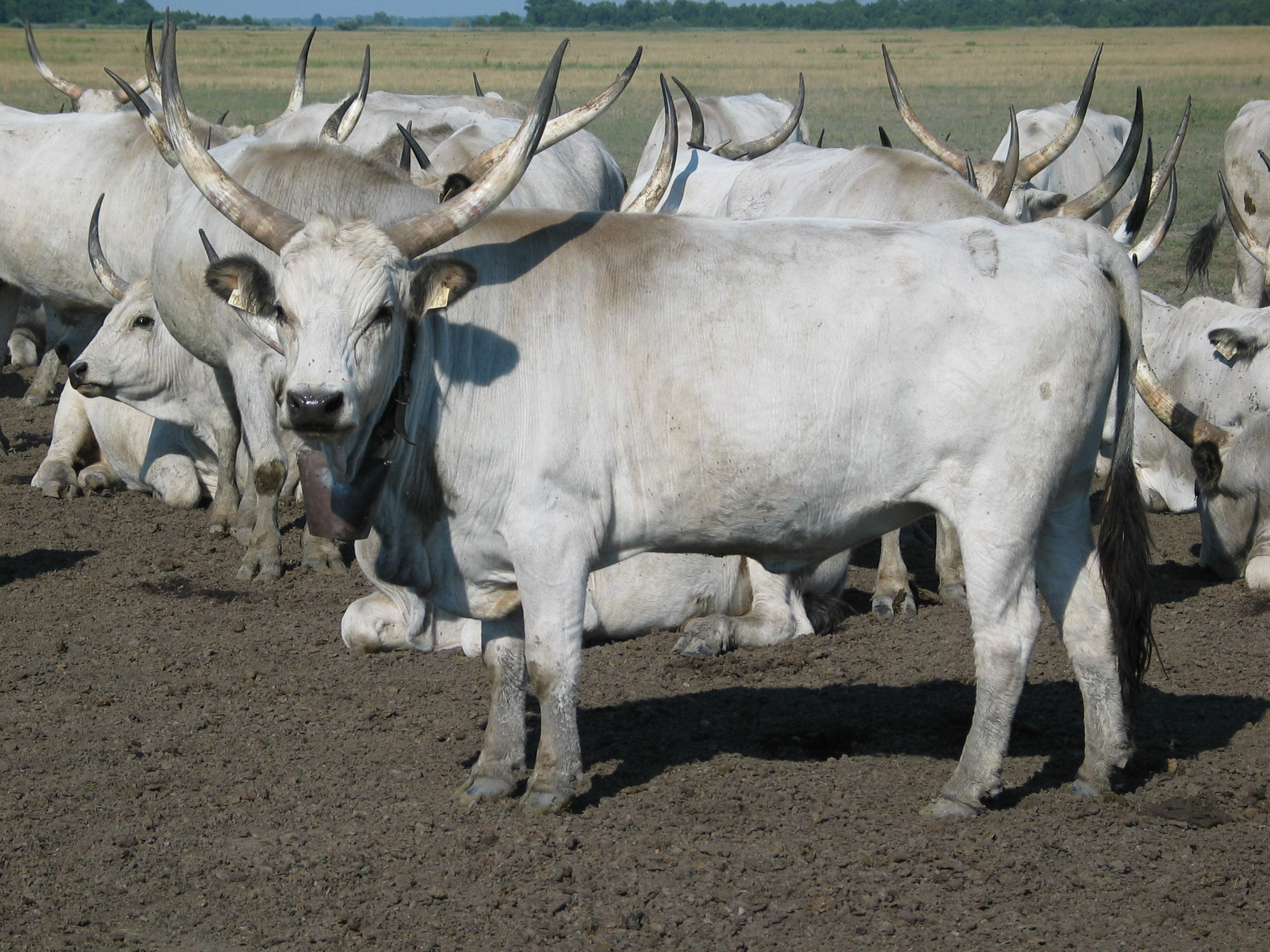 Hungarian Grey cows in Hortobágy National Park, Hungary.